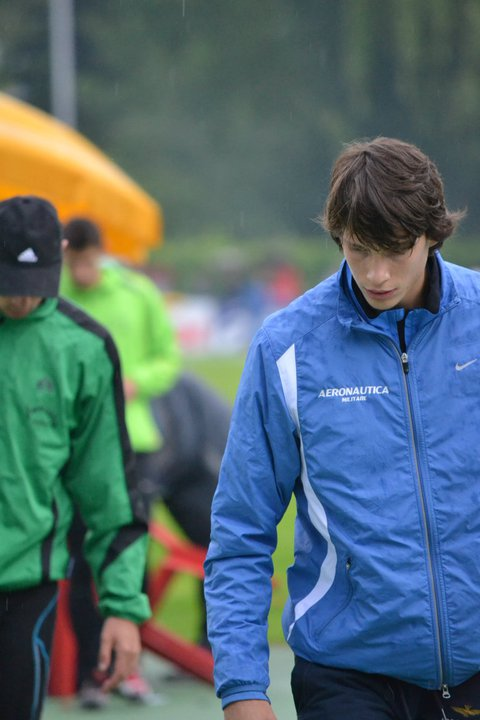 Marco Fassinotti at training camp in 2010